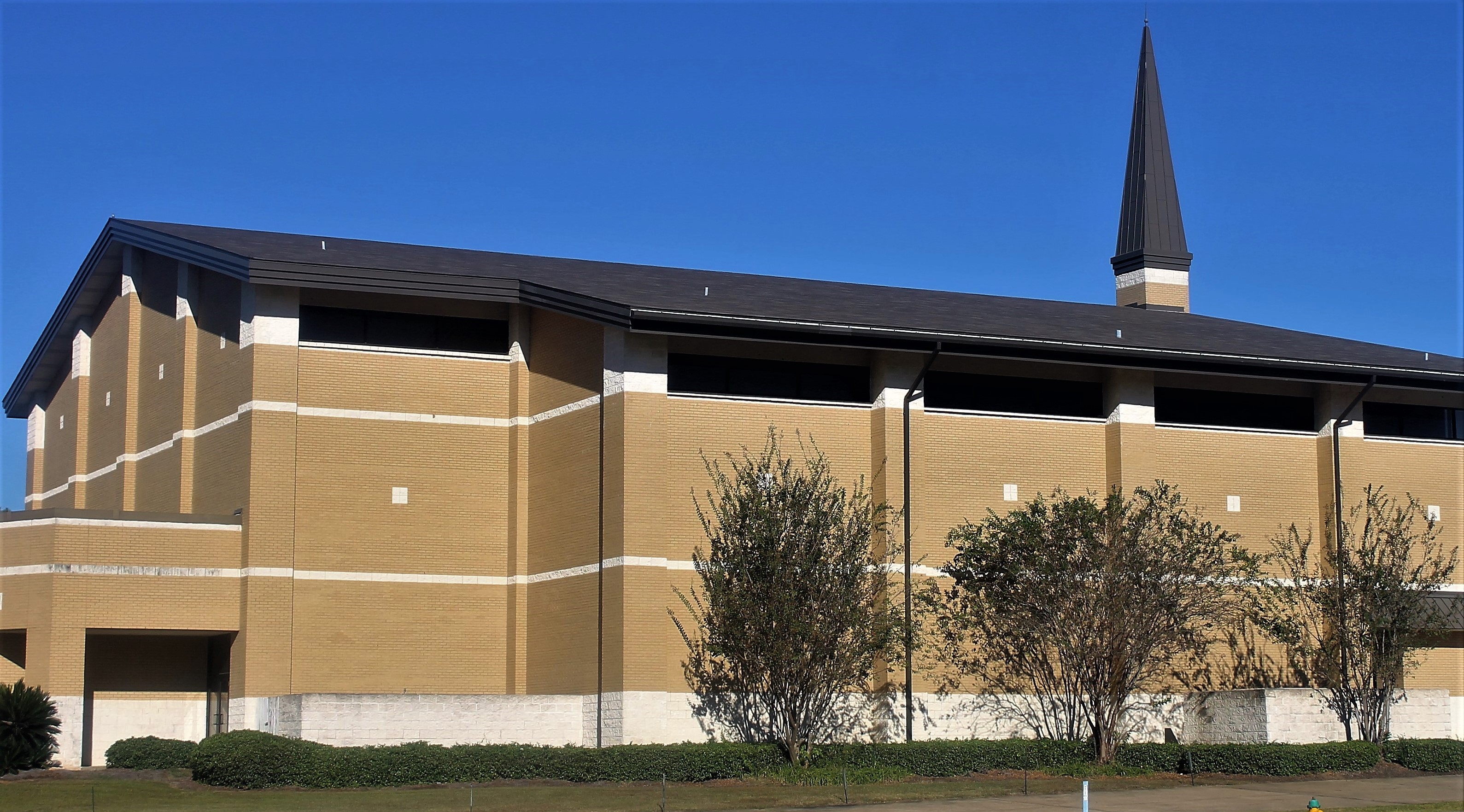 Kingsville Baptist Church at 3911 Monroe Hwy. in Ball, Louisiana